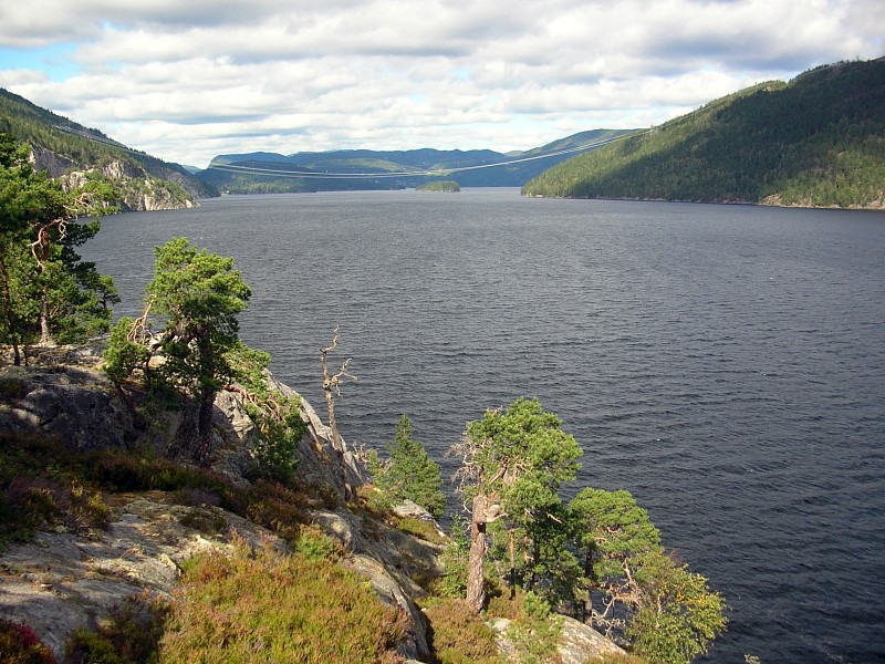 Lake Tinnsjå (Tinnsjø, Tinnsjøen) in Norway